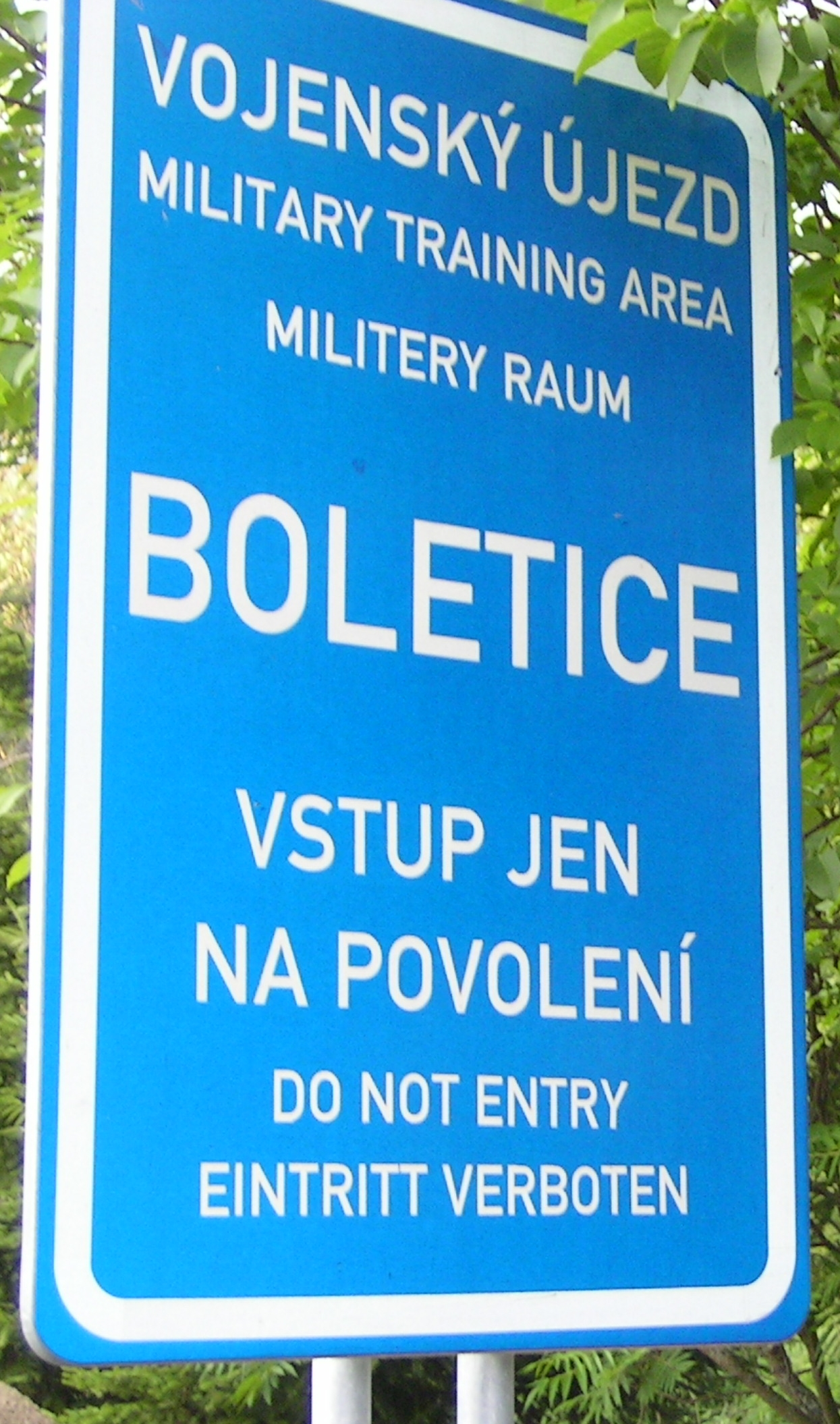 Military base warning sign at the Boletice Military Training Area, Czech Republic